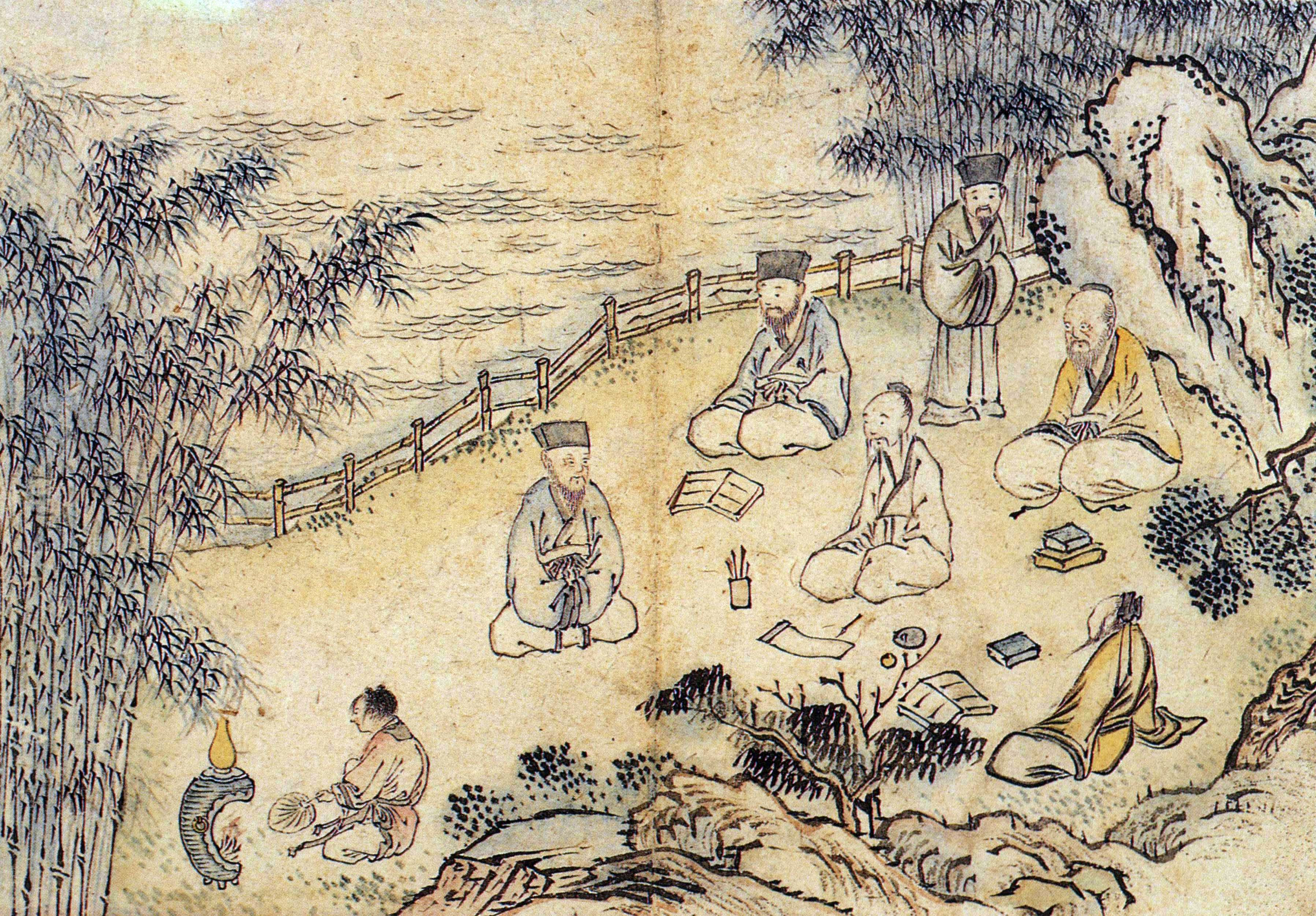 Yu Suk, Orohoecheop